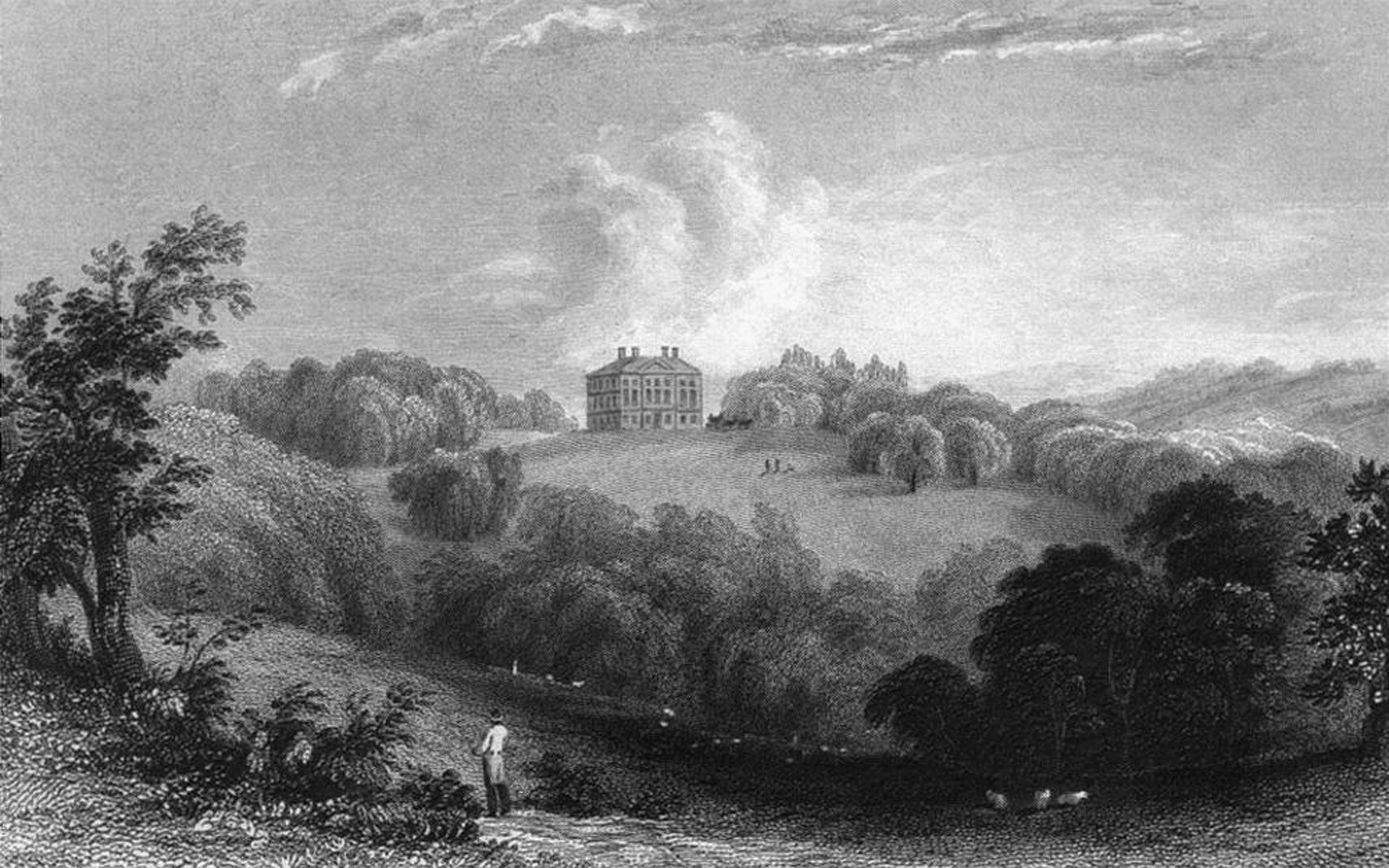 Copped (or Copt) Hall, Essex, view from the north-east engraved from a drawing, as part of a book published by George Virtue, London, 1834.